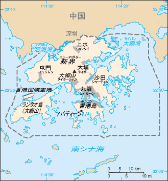 Map of Hong Kong (translated into Japanese). Original Image is from CIA World Factbook.